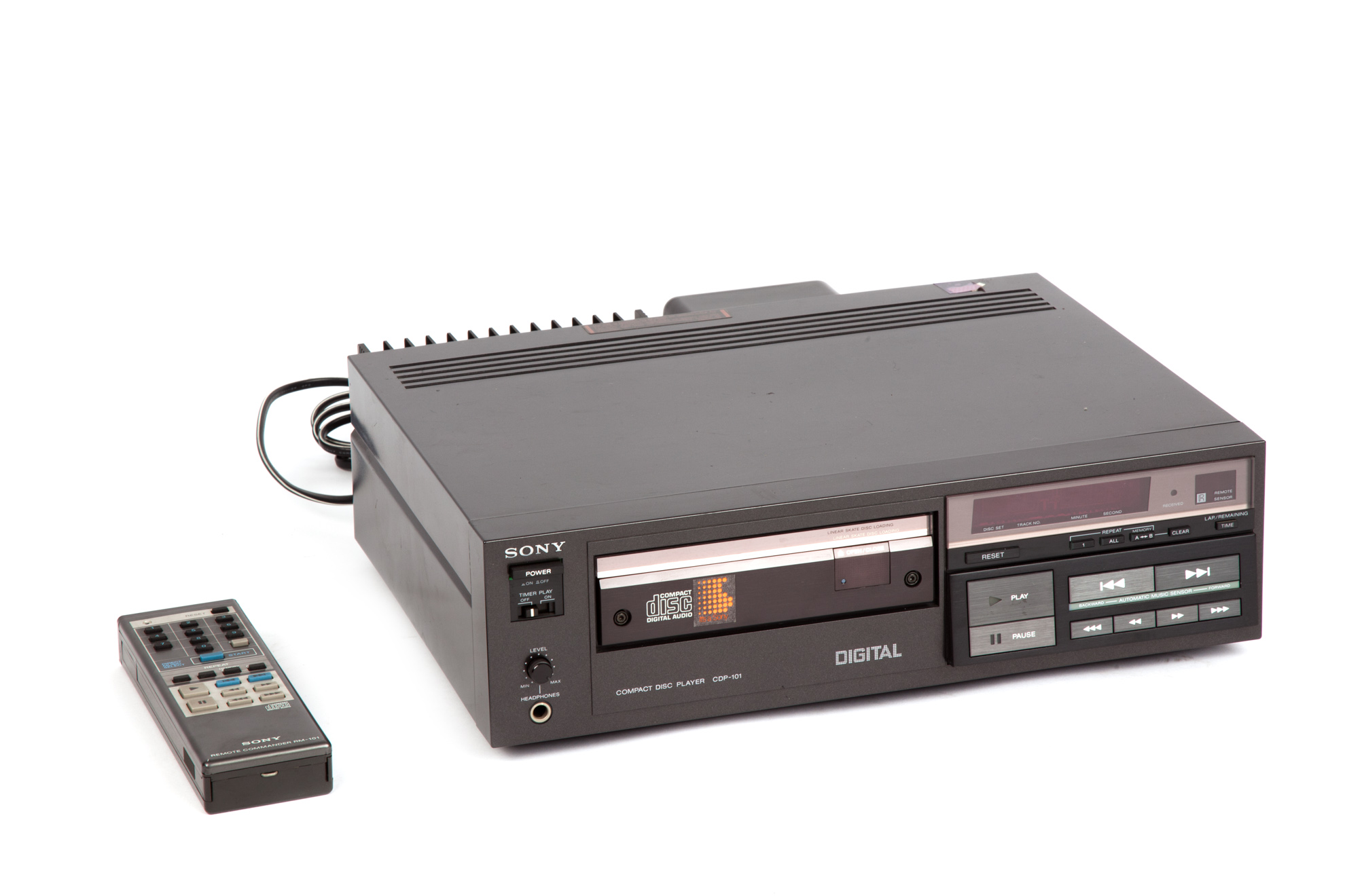 Primo lettore CD messo in commercio dalla Sony - Lettore CD Sony CDP-101 - Conservato presso il Museo della Scienza e della Tecnologia Leonardo da Vinci di Milano